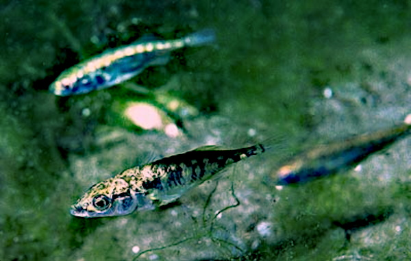 Originally uploaded 25 feb 2004 13:42 to by Gebruiker:GerardM, with the summary "Met toestemming fotgraaf." Permission: Gebruiker:GerardM/Ron Offermans